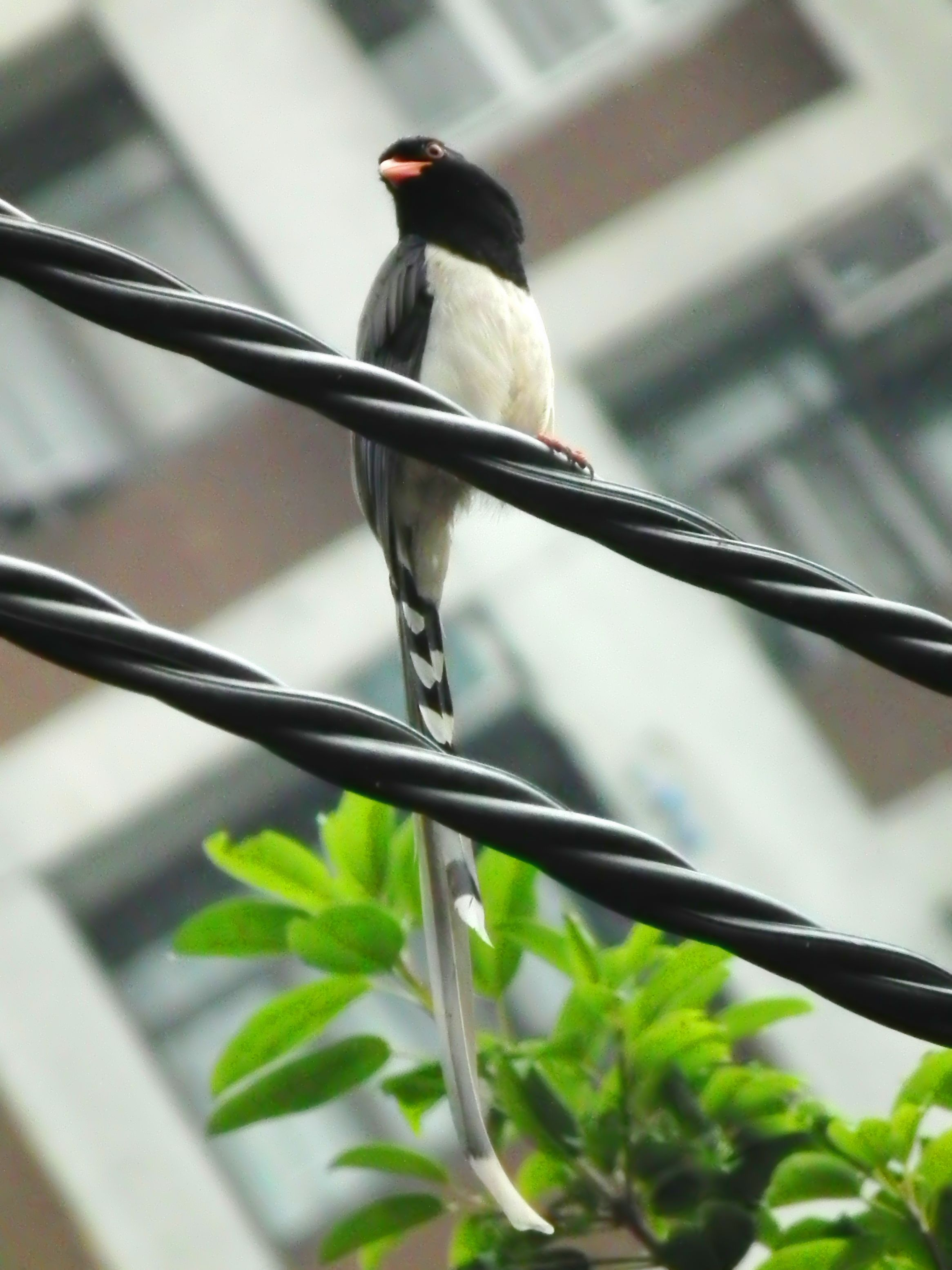 Saw at hillside. Got a video of its calling as well.